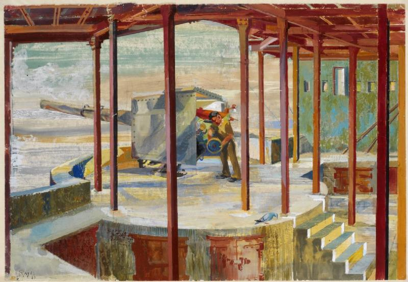 Fortified Islands in the Bristol Channel- 6" Naval gun emplacement, Gallipoli Gun, Steepholm image: A covered gun emplacement looking out over water with a figure standing behind.